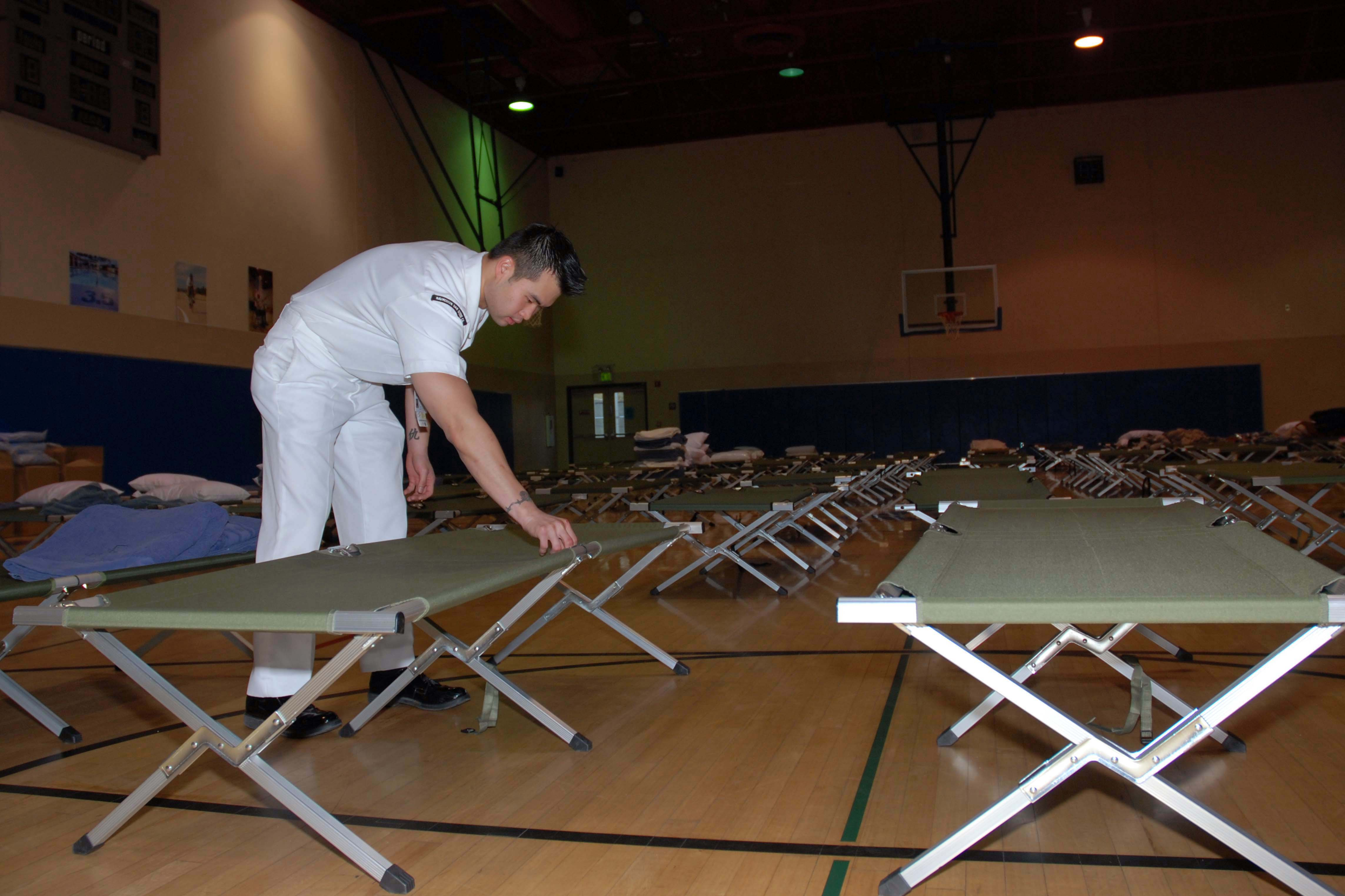 SAN DIEGO (Oct. 23, 2007) - Culinary Specialist 2nd Class Yan Ng prepares cots for potential evacuees during the San Diego wildfires, which have already burned more than 250,000 acres in San Diego County. U.S. Navy photo by Mass Communication Specialist 2nd Class Greg Mitchell (RELEASED)